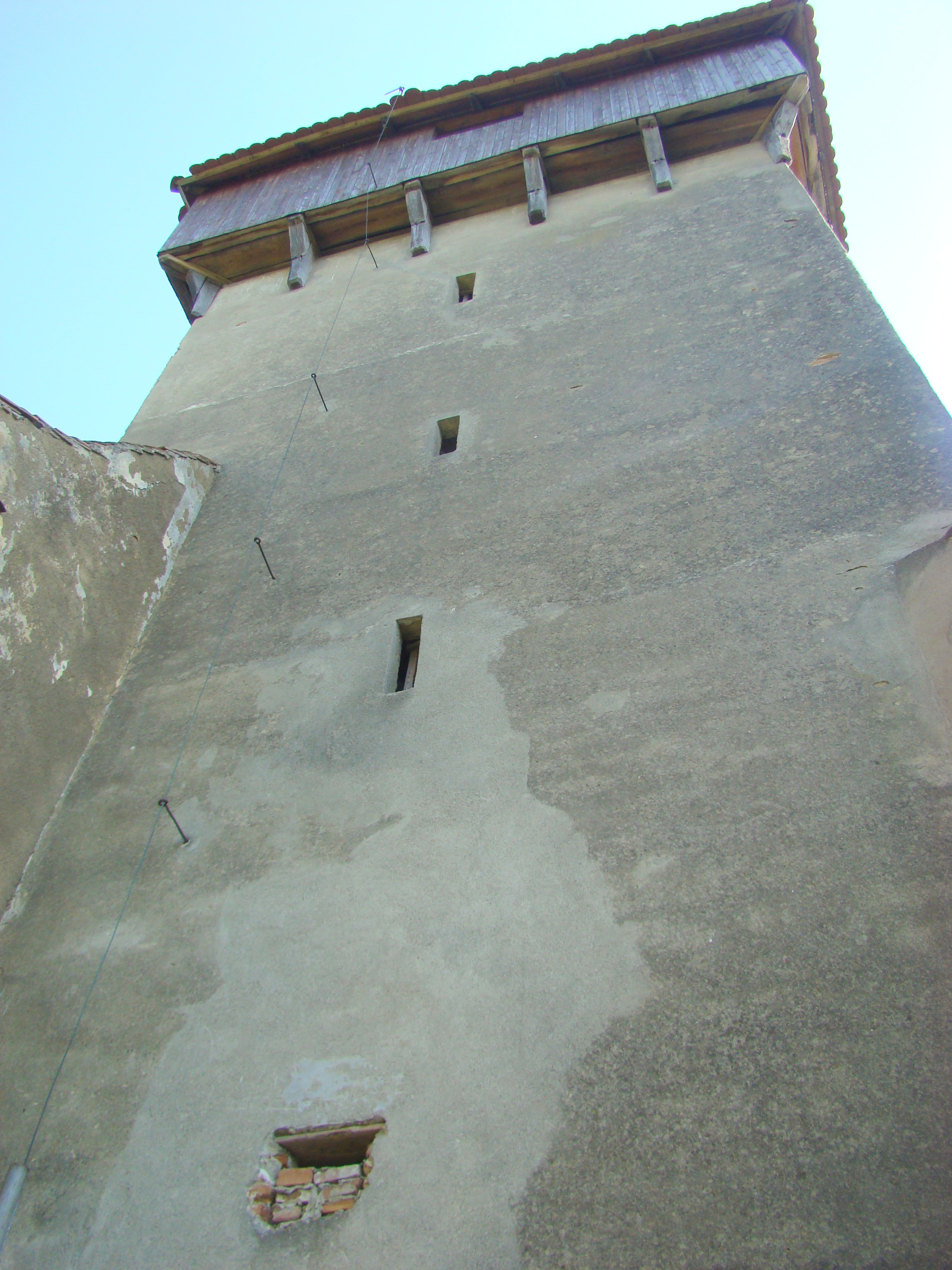 Lutheran church in Hetiur, Mureș County, Romania